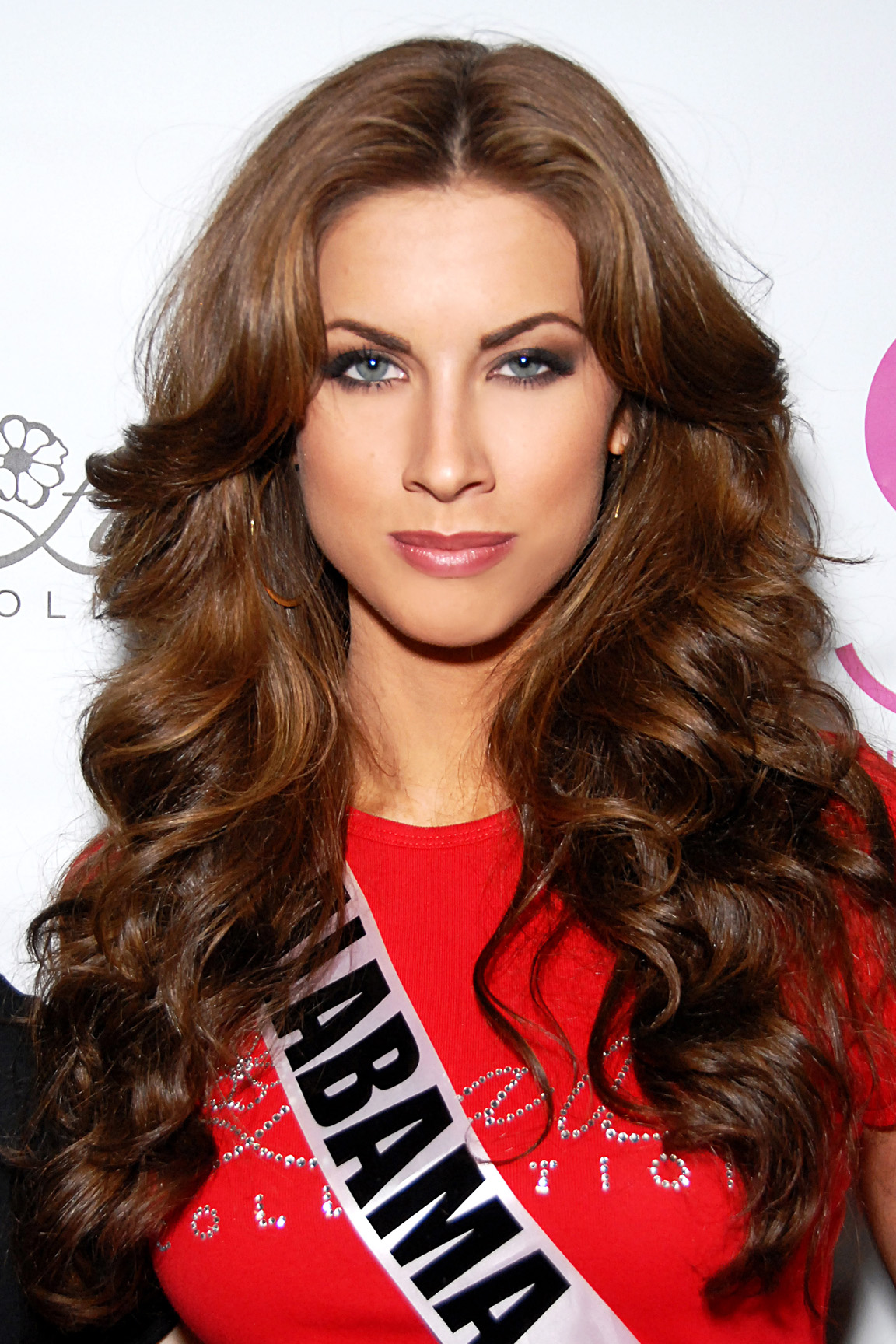 Katherine Webb, Las Vegas, Nevada on May 28, 2012 - Photo by Glenn Francis of